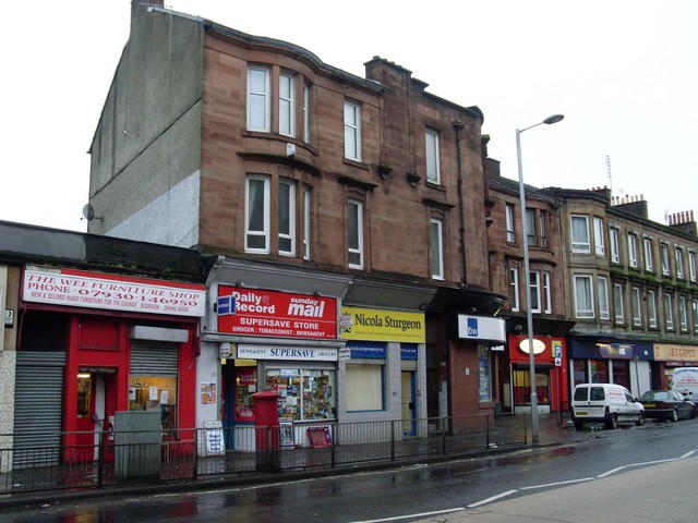 Nicola Sturgeon MSP Constituency Office The Member of the Scottish Parliament for Glasgow Govan has her Constituency Office located in proximity to that of Mohammad Sarwar MP. Nicola Sturgeon is the deputy leader of the Scottish National Party, and her claiming of the Glasgow Govan area was one of many surprises in the last Holyrood Election as voters in previously "safe" Labour constituencies turned their backs on the party to vote the SNP to a marginal victory.